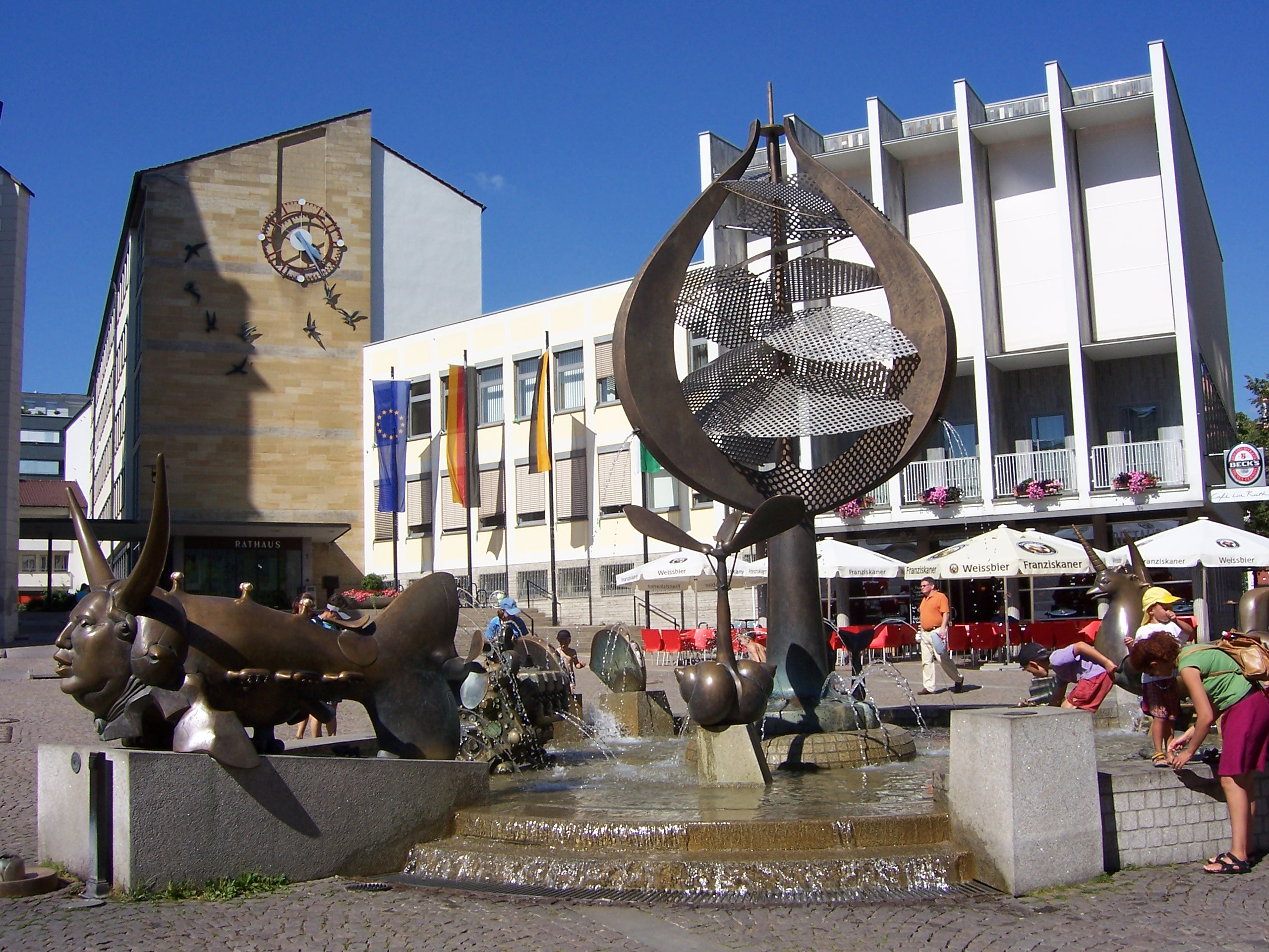 Friedrichshafen, Details of Fountain at city hall